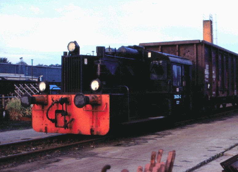 German light diesel locomotive (Kö) of Deutsche Reichsbahn (DR) Class 100 (later DB Class 310) at Bad Salzungen station in September 1995.